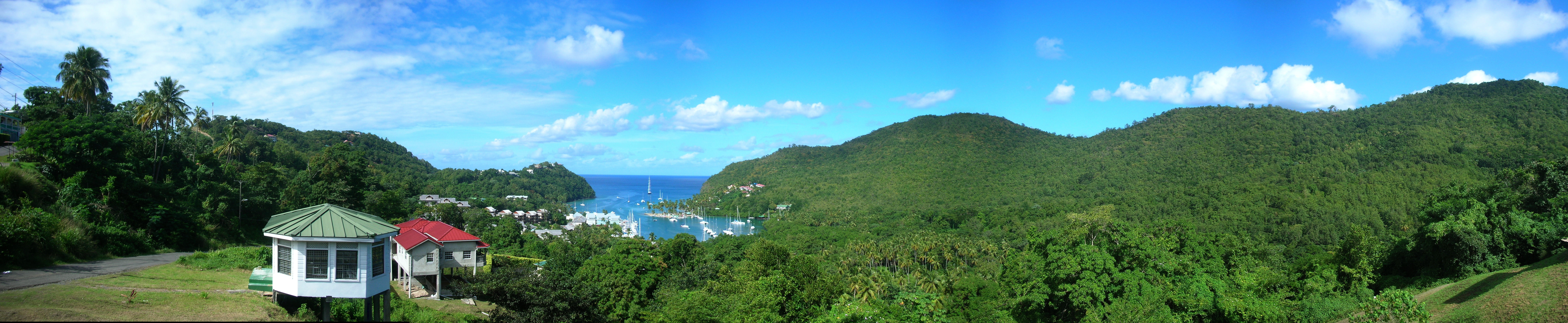 Marigot Bay, Saint Lucia, West Indies